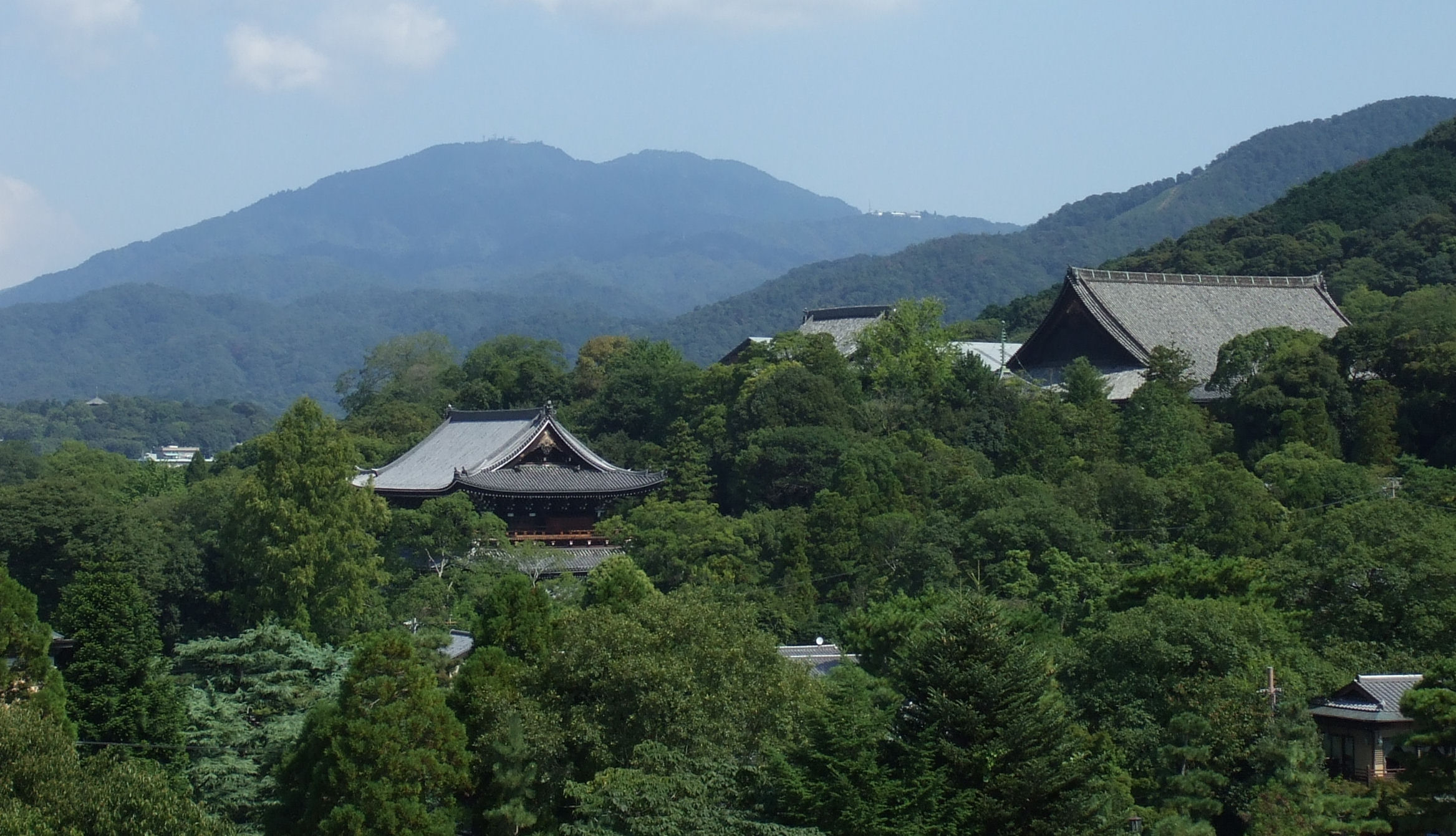 Distant view of Chionin from Gionkaku , Kyoto Japan